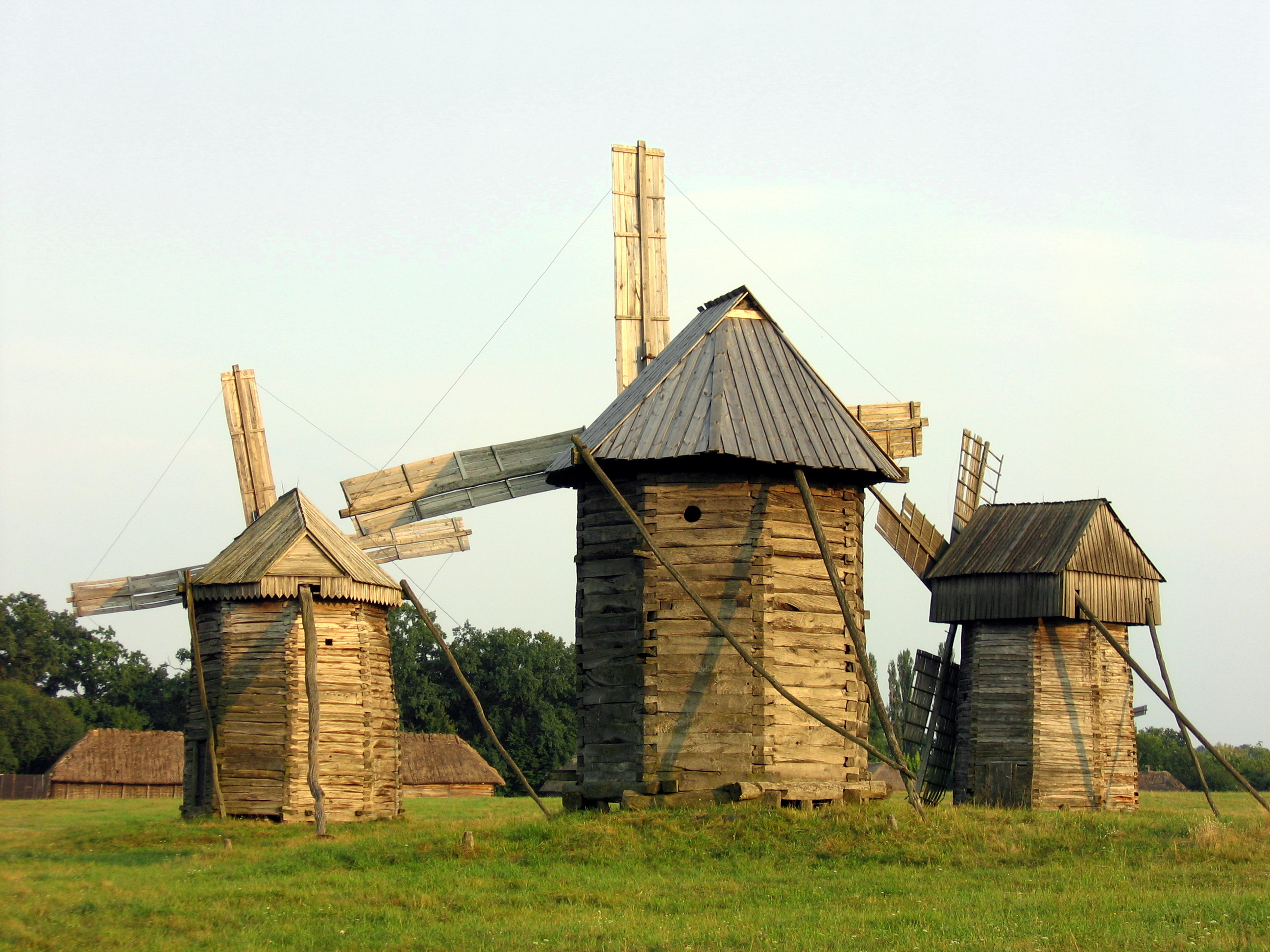 Museum of Ukrainian Folk Architecture and Ethnography in Pyrohiv (near Kiev, Ukraine)